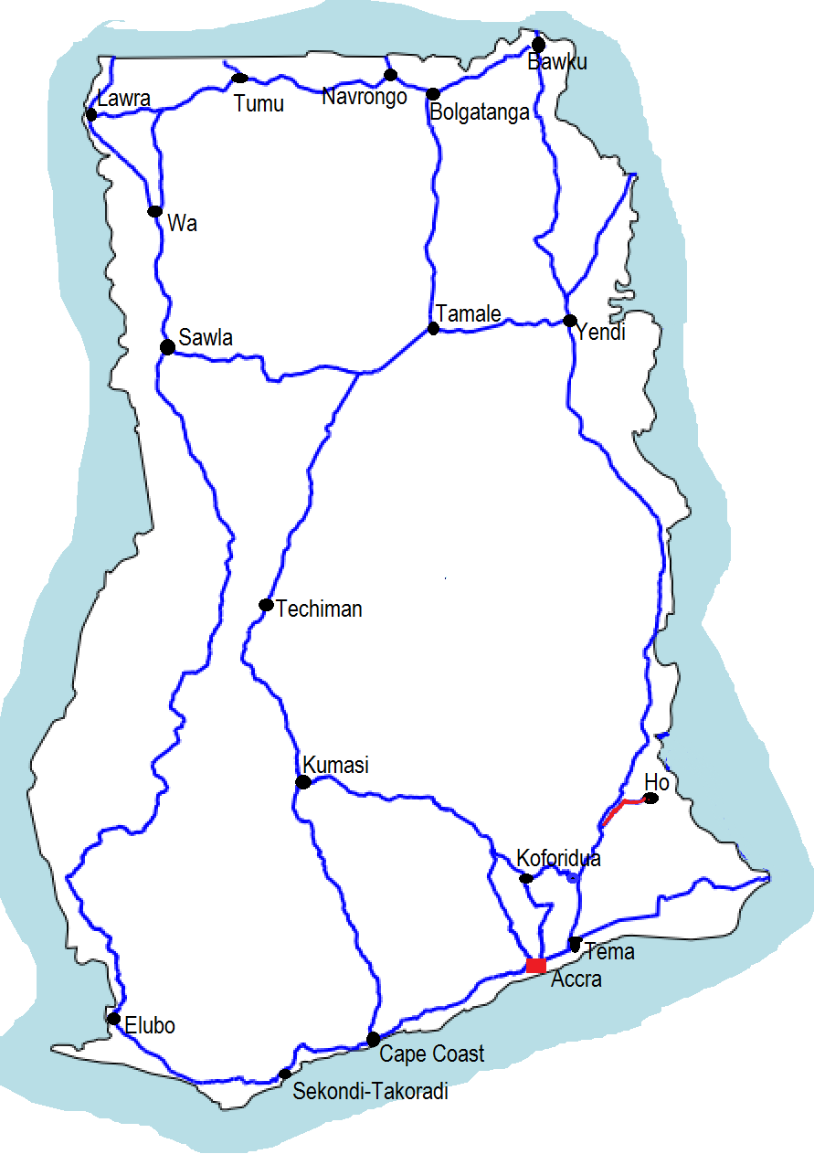 Ghana N5 highway route